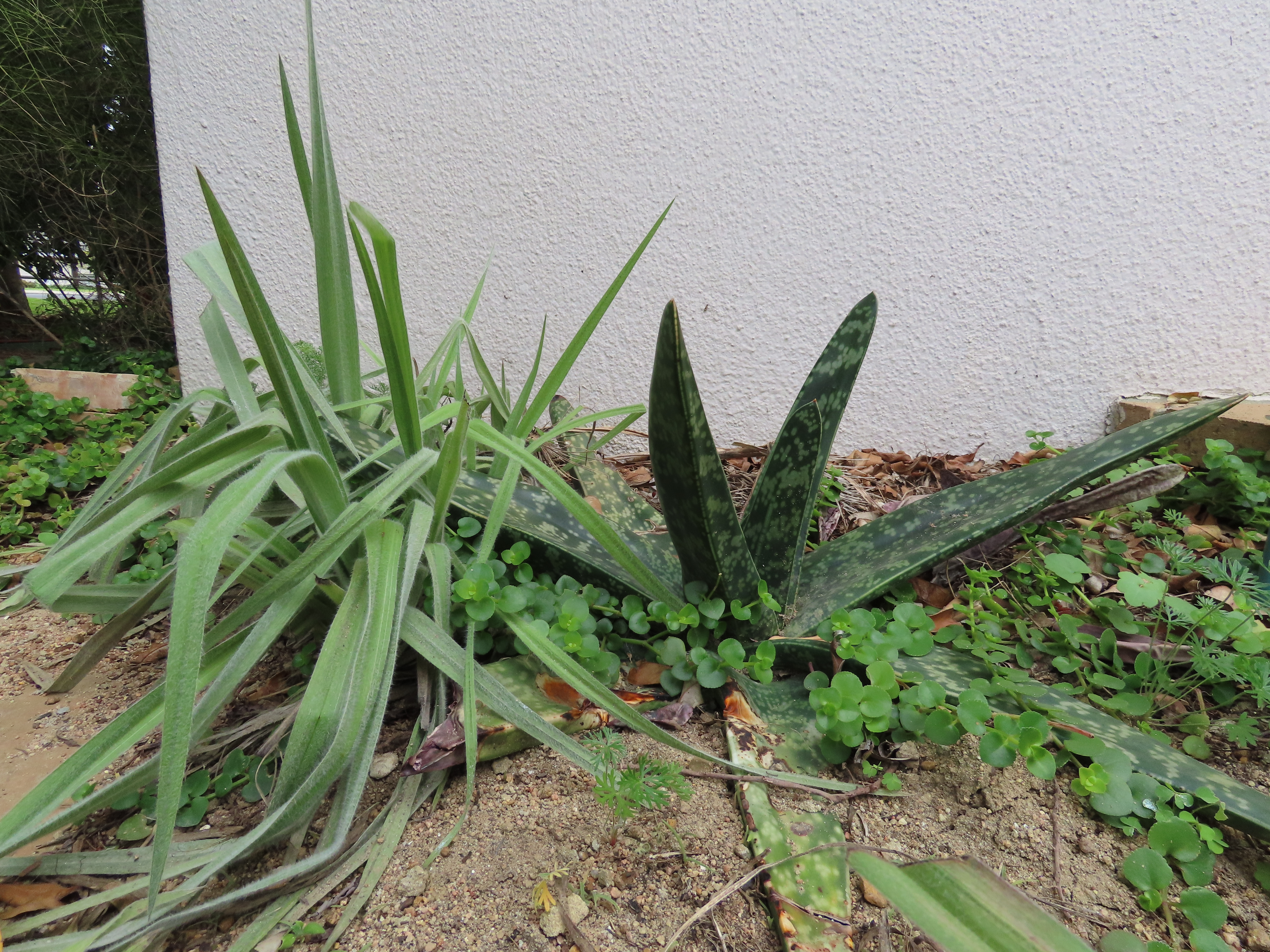 Acaulescent habit of Hypoxis species and Gasteria species growing next to each other. These are growing in a garden, not in their wild habitat